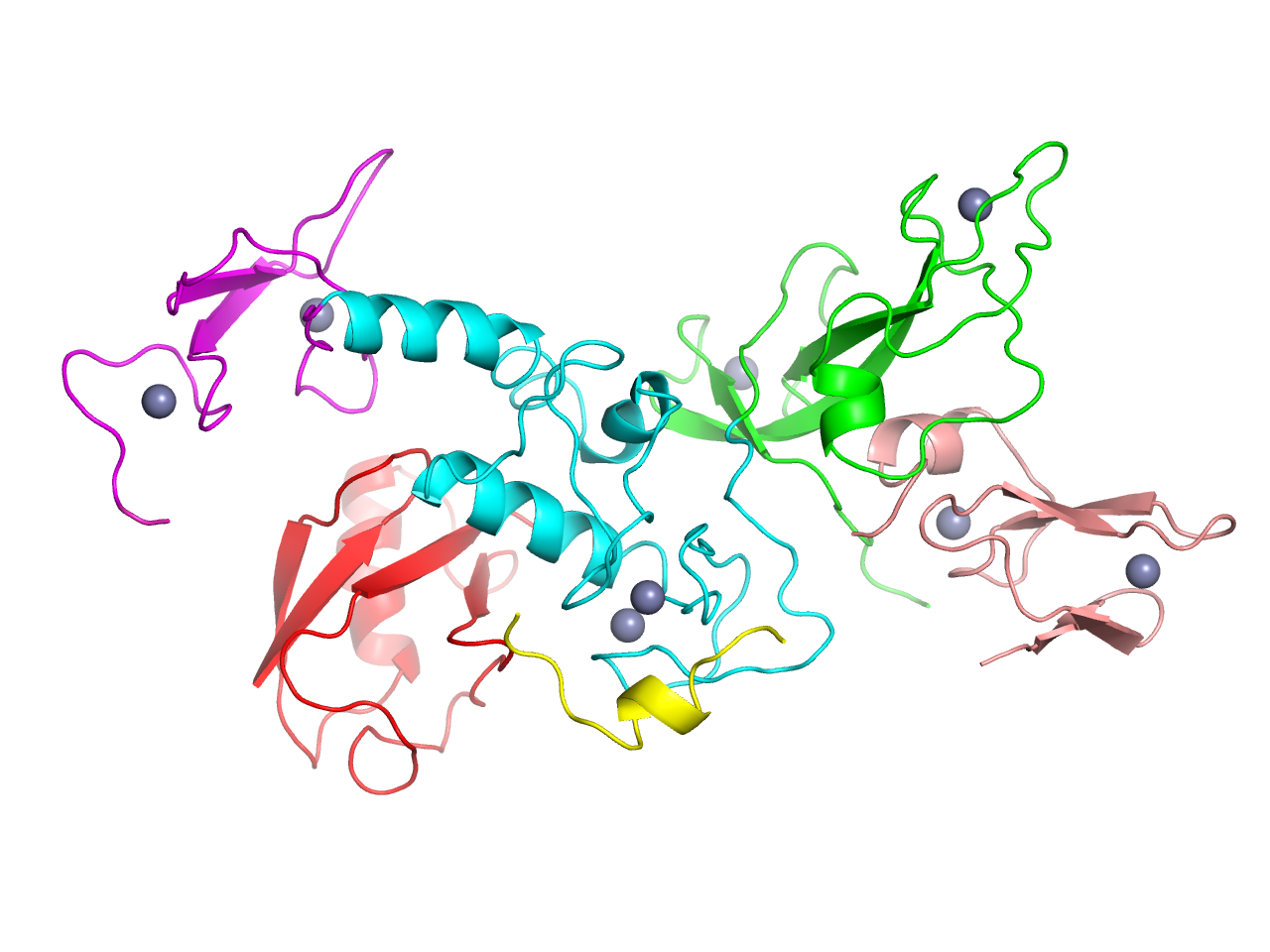 Cartoon representation of a single polypeptide chain form the crystal structure of parkin. The structure consists of 6 parts: Ubl (red), RING0 (green), RING1 (cyan), IBR (magenta), REP (yellow) and RING2 (pink).